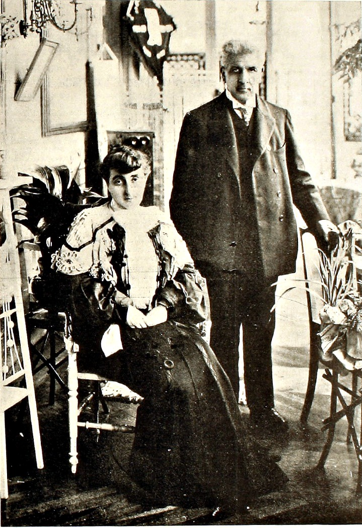 President Pedro Montt and his wife, Sara del Campo (Chile)